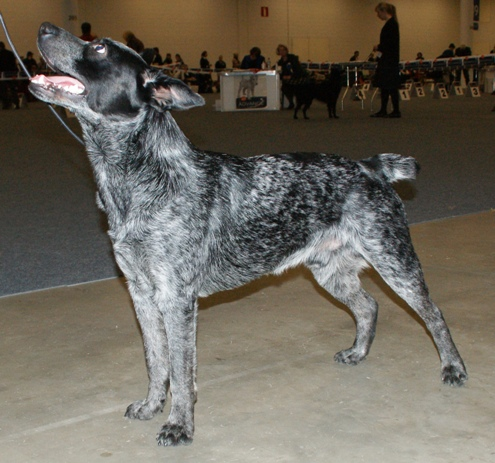 Blue Australian Stumpy Tail Cattle Dog.